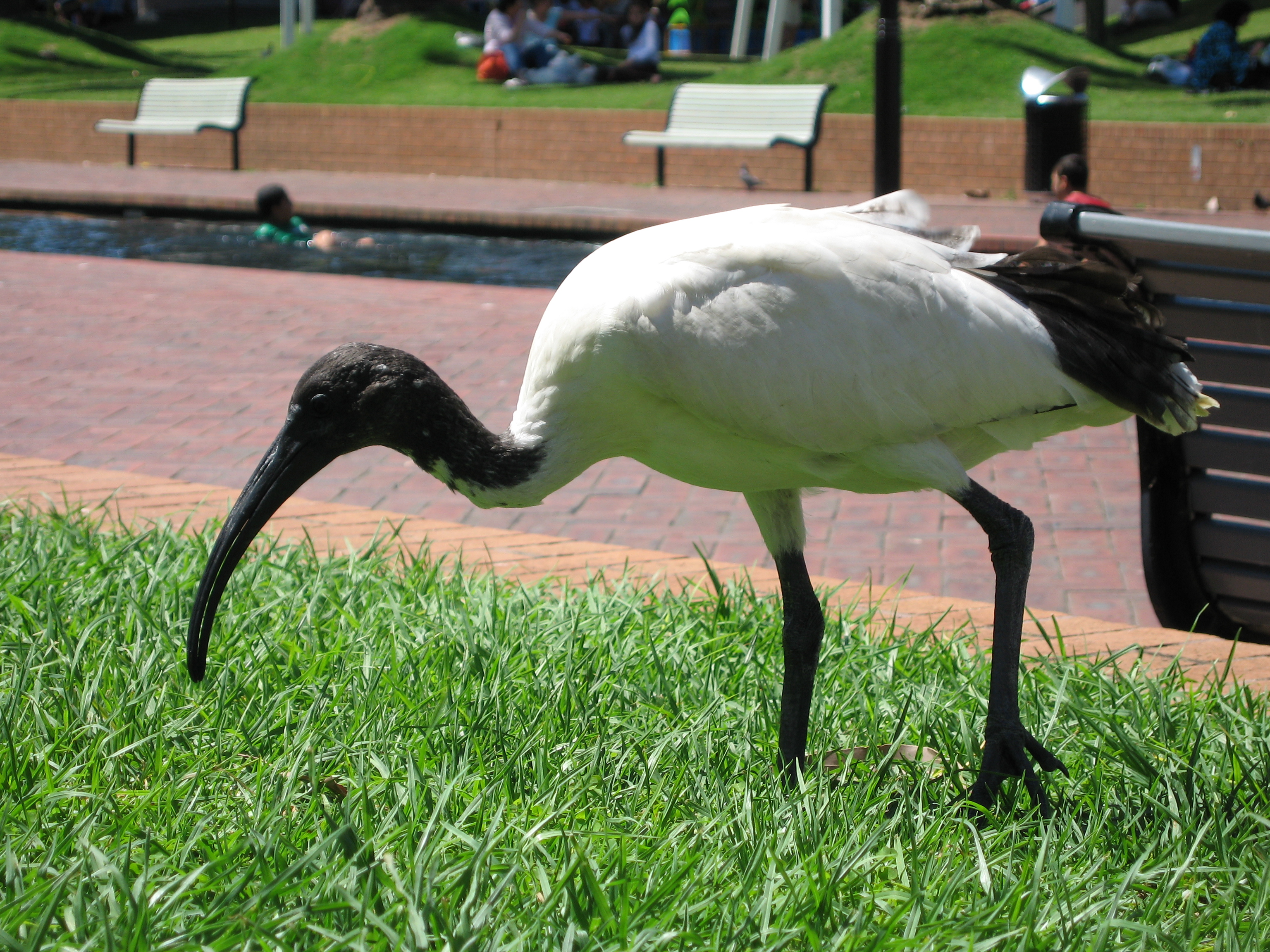 Australian White Ibis (Threskiornis molucca), Darling Harbour, Sydney, Australia.